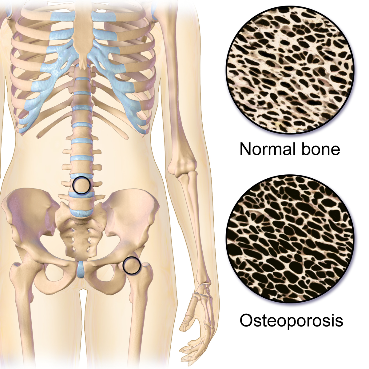 Osteoporosis Locations. Animation in the reference.[1] This image was donated by Blausen Medical.